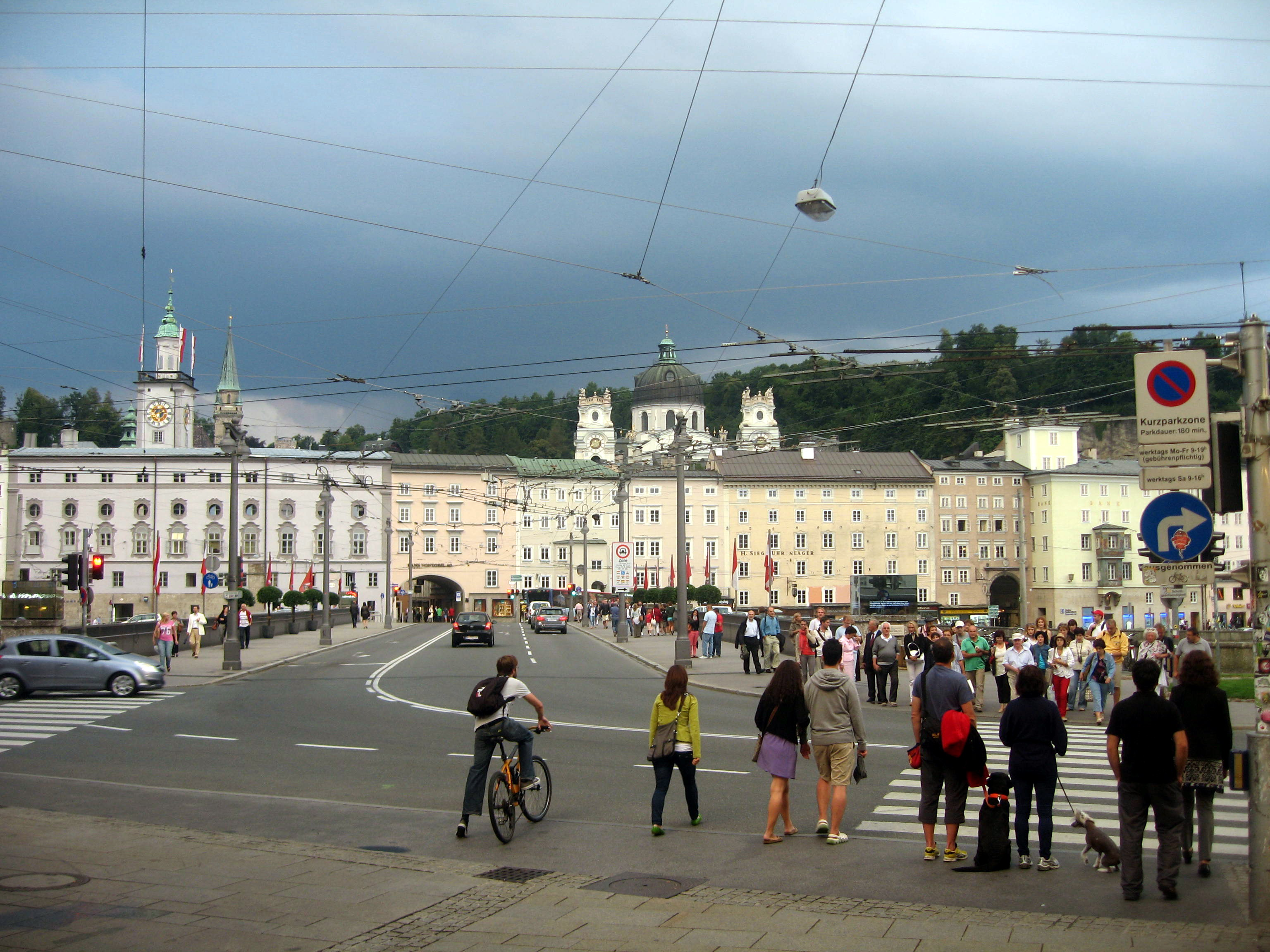 Staatsbrucke Salzburg